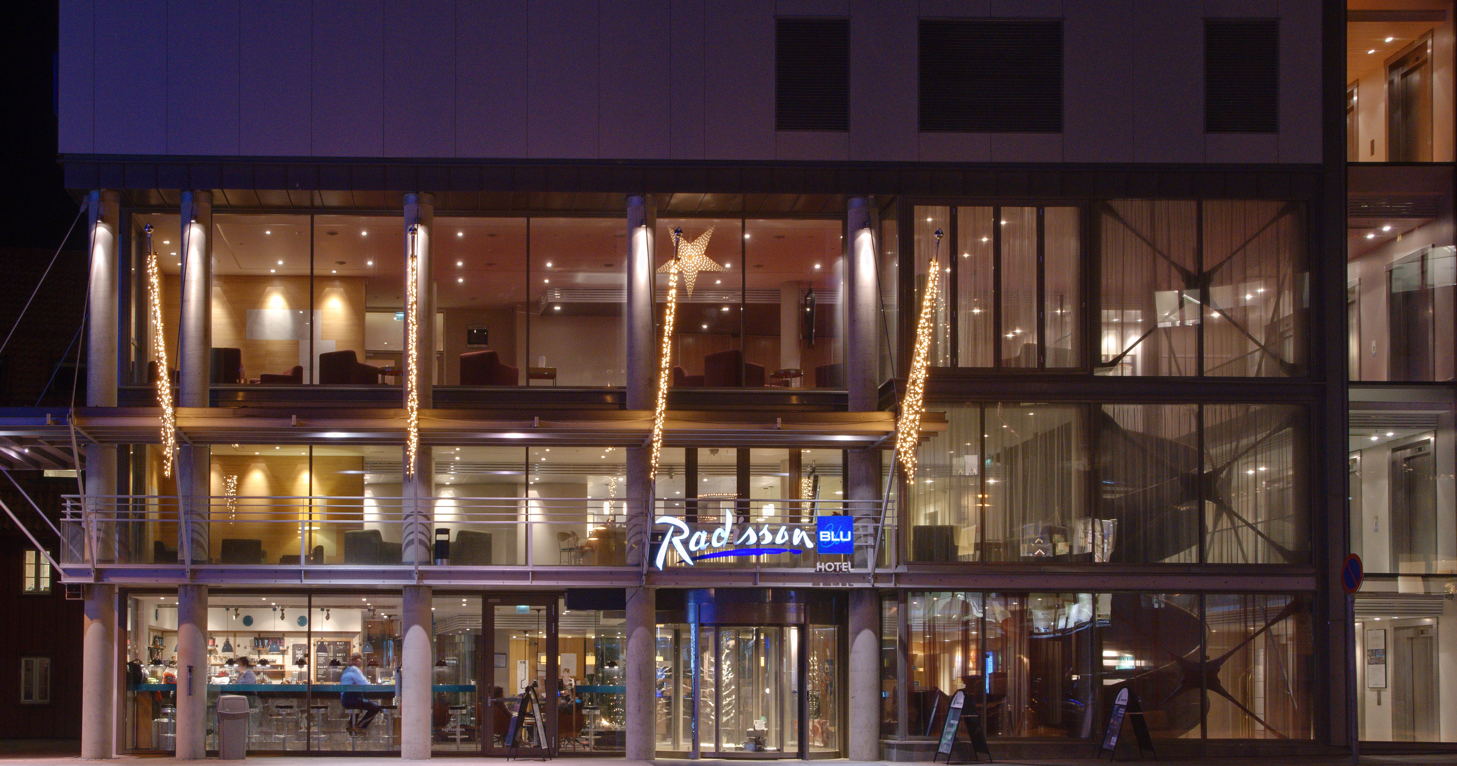 Entrance to the Radisson Blu hotel in Tromso